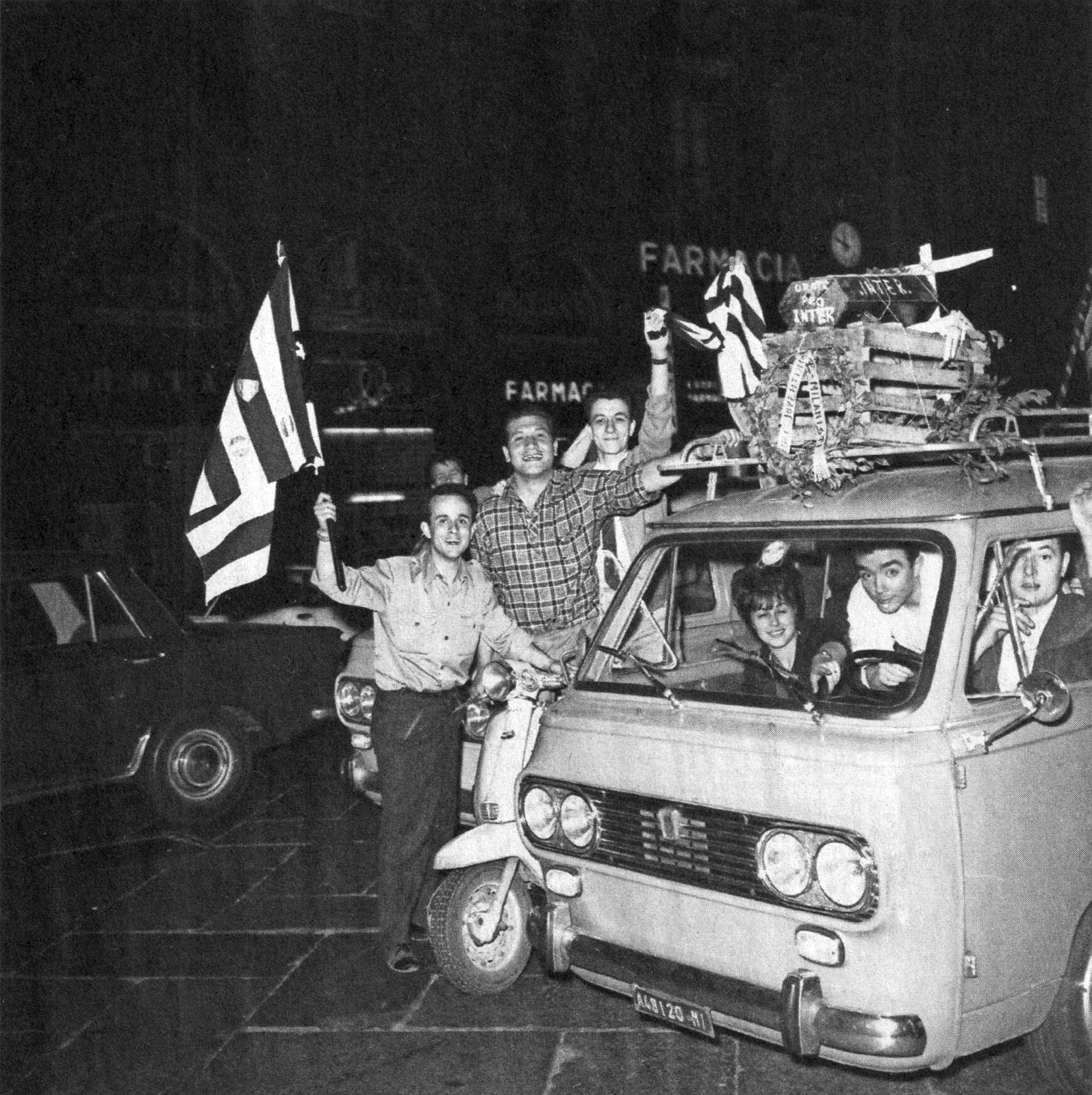 Milan (Italy), June 1, 1967. Milanese supporters of Juventus F.C. celebrates the victory of the Italian Championship 1966–67 Serie A with a mockery to Inter Milan's rivals, beaten by one point after the decisive standing's overtaking on the 34th and final round.